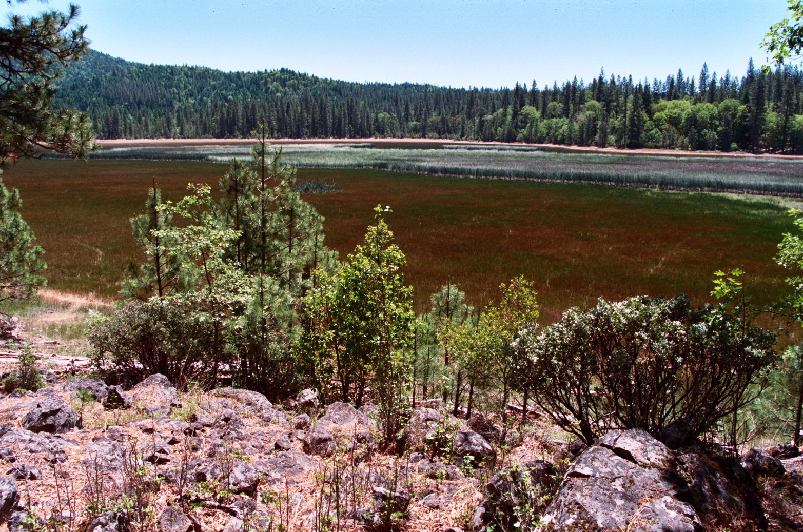 Photo of Boggs Lake vernal pool looking northward